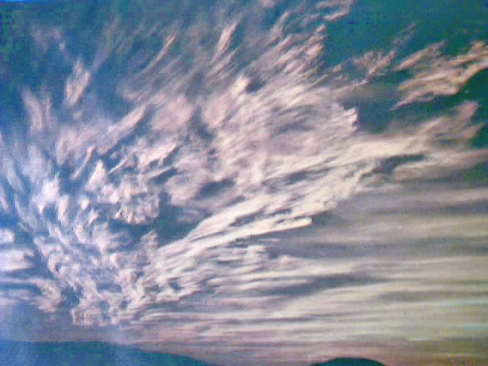 Airglow. Photo by Ângelo Antônio Leithold, taken in 1976.